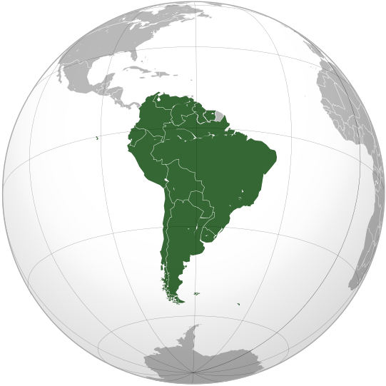 Map of countries in South America with Burger King locations (orthographic projection)